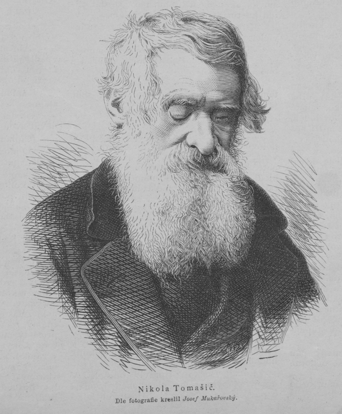 Portrait of Niccolò Tommaseo (Nikola Tomasic 1802 - 1874), Italian writer and politician of Croatian origin. See short biography in Czech).